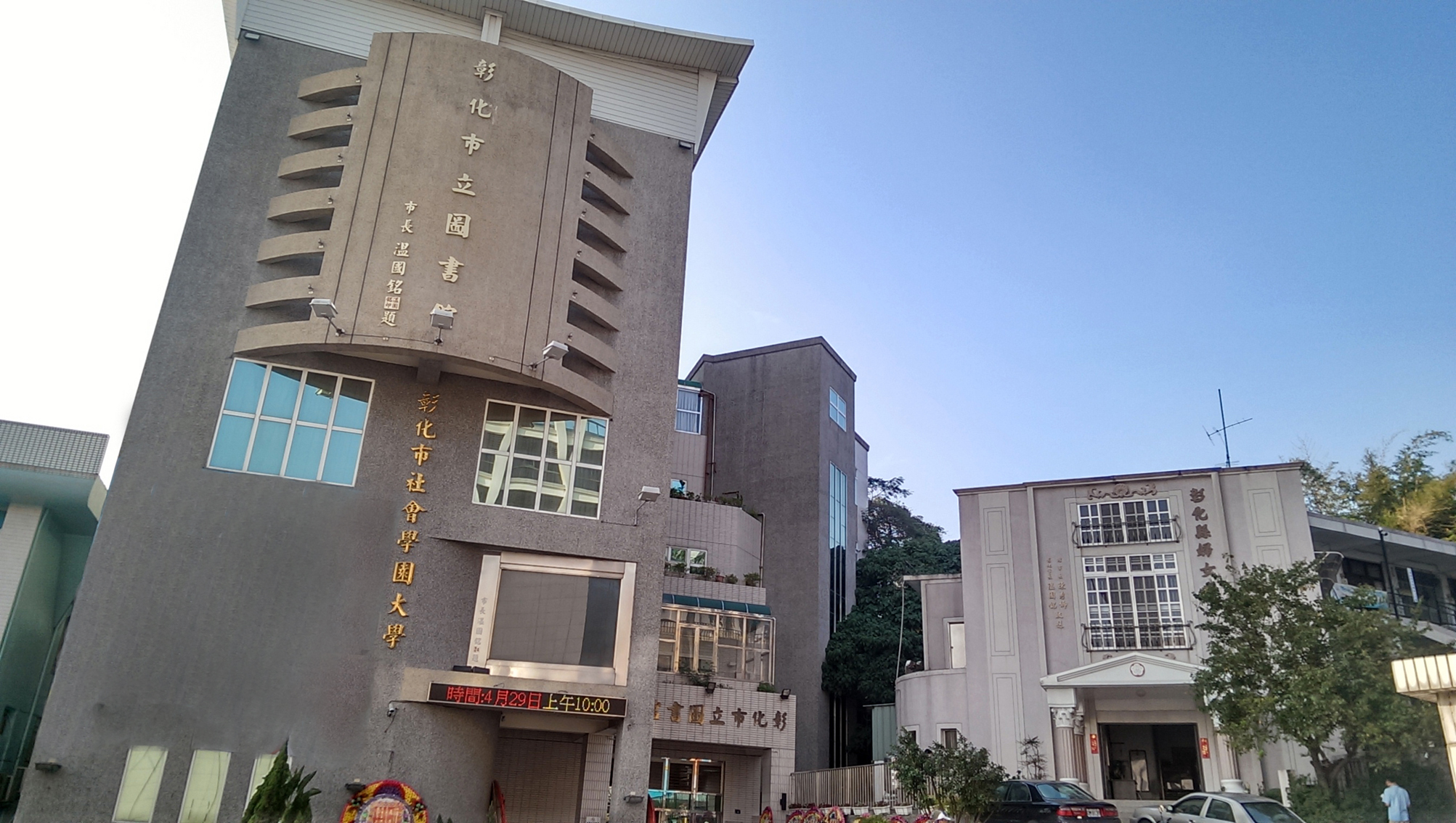 Changhua City Library中文（台灣）: 彰化市立圖書館